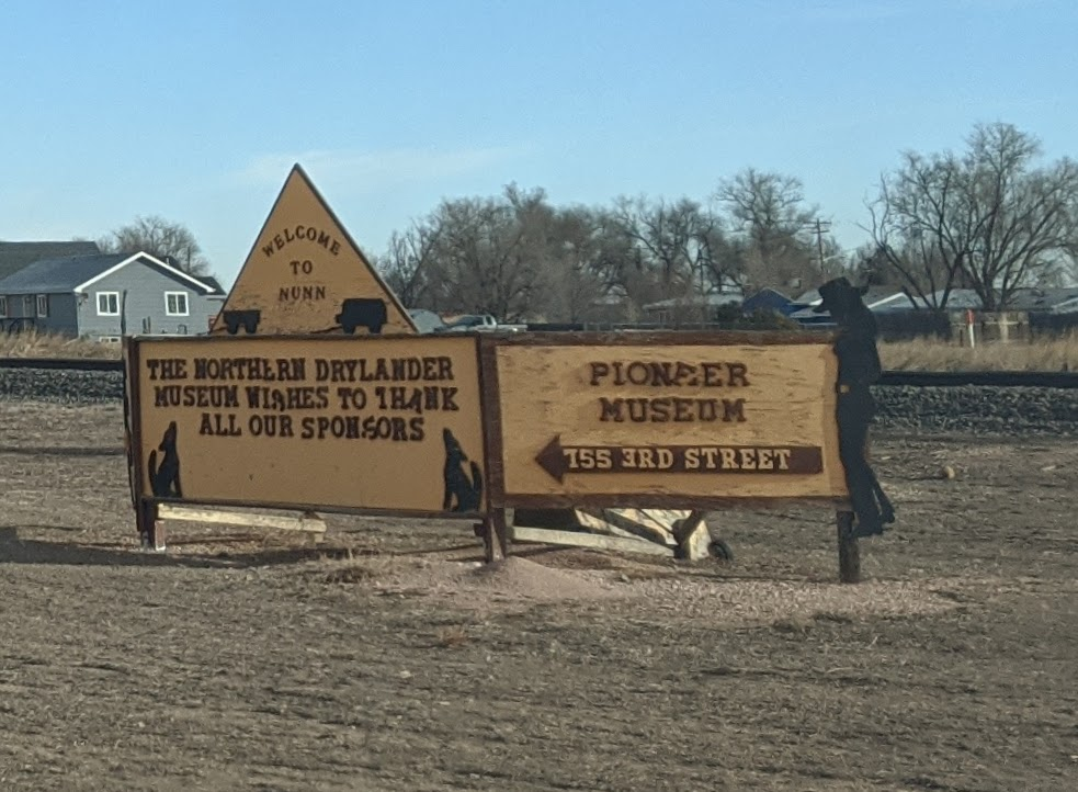 Welcome sign in Nunn, Colorado